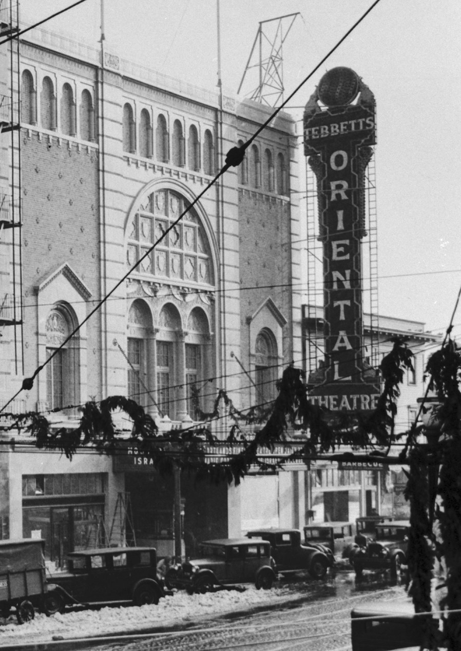 Tebbetts' Oriental Theatre, in Portland, Oregon, on its opening day.